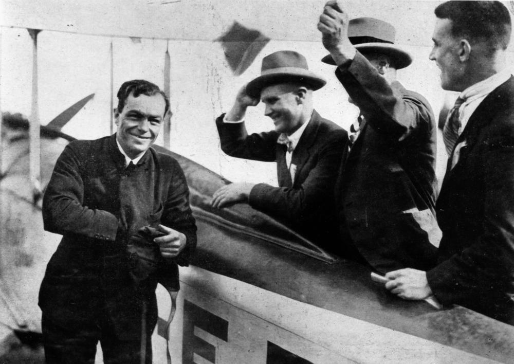 Bert Hinkler alighting from his plane. Capiton under the photograph reads: 'The Aviator alighting from his plane as it stopped'.